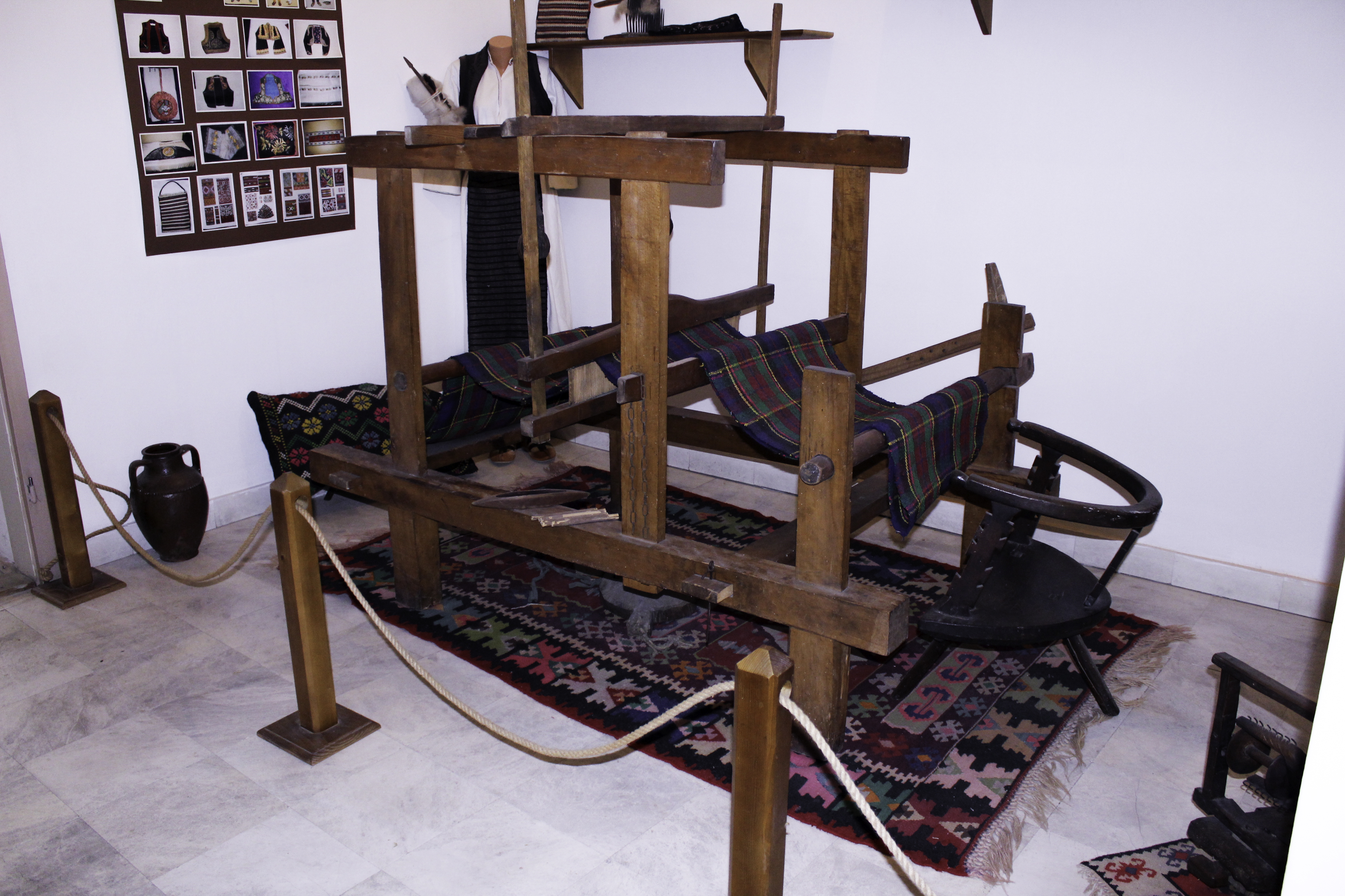 Loom - part of ethnographic items in the Museum of Old Herzegovina in Foca. A loom is a device used to weave cloth and tapestry.